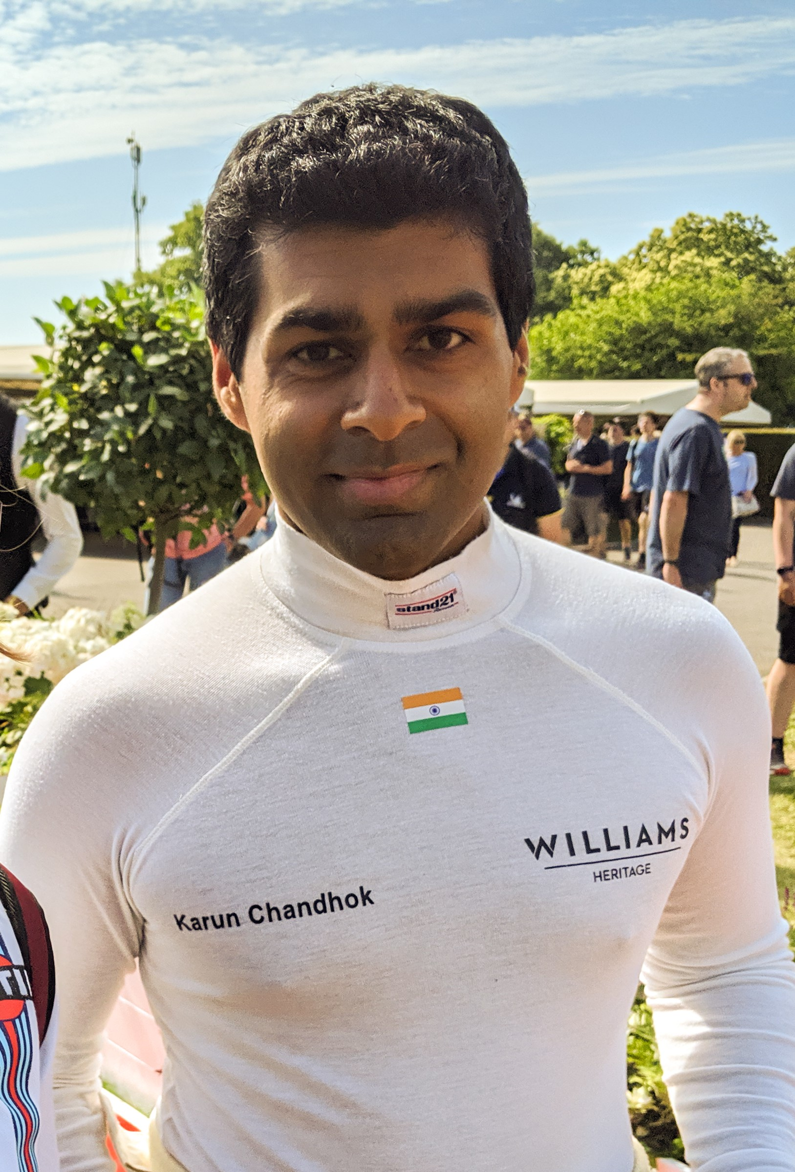 Karun Chandhok 2019 Goodwood Festival of Speed.